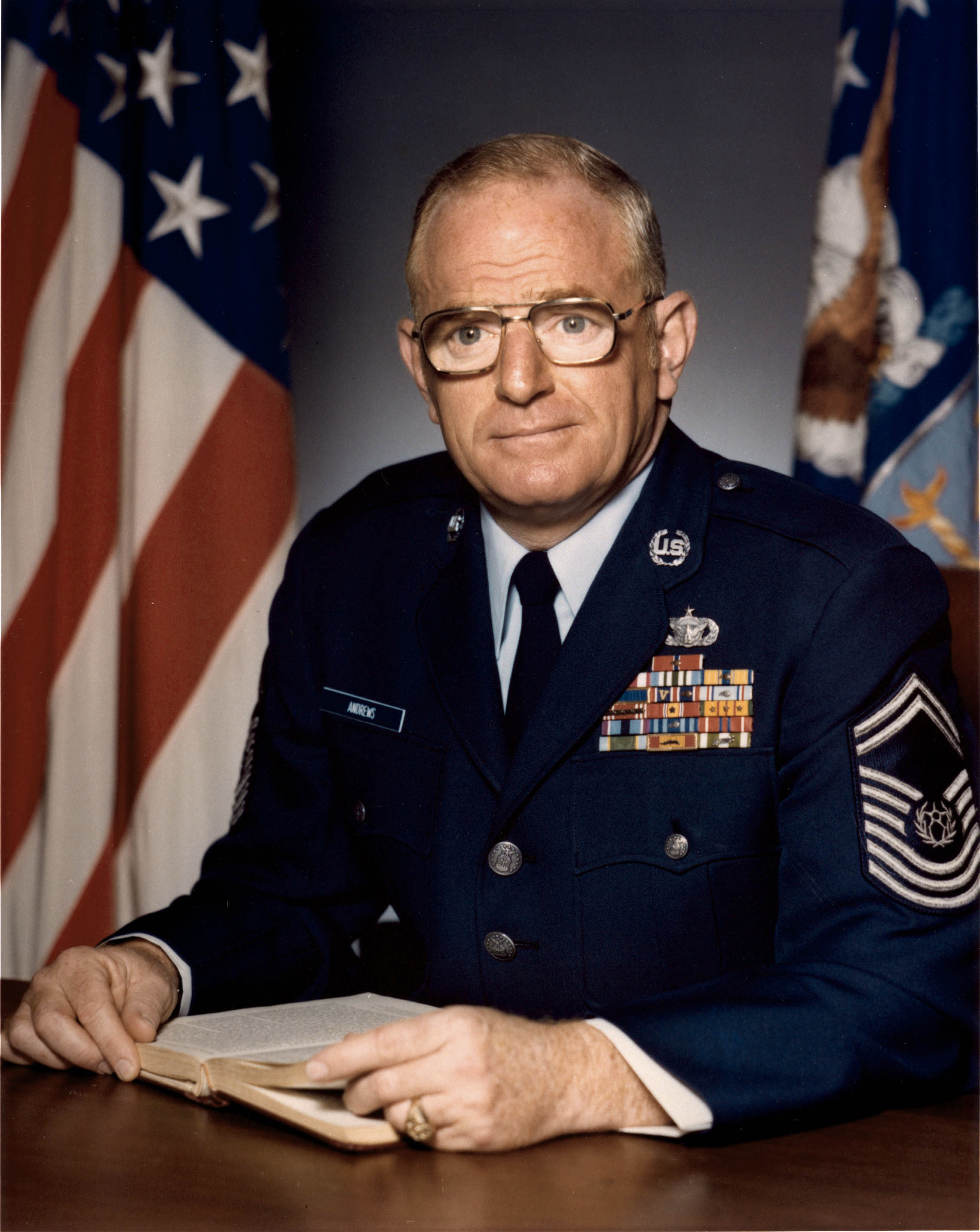 Arthur L. "Bud" Andrews, 7th CMSAF